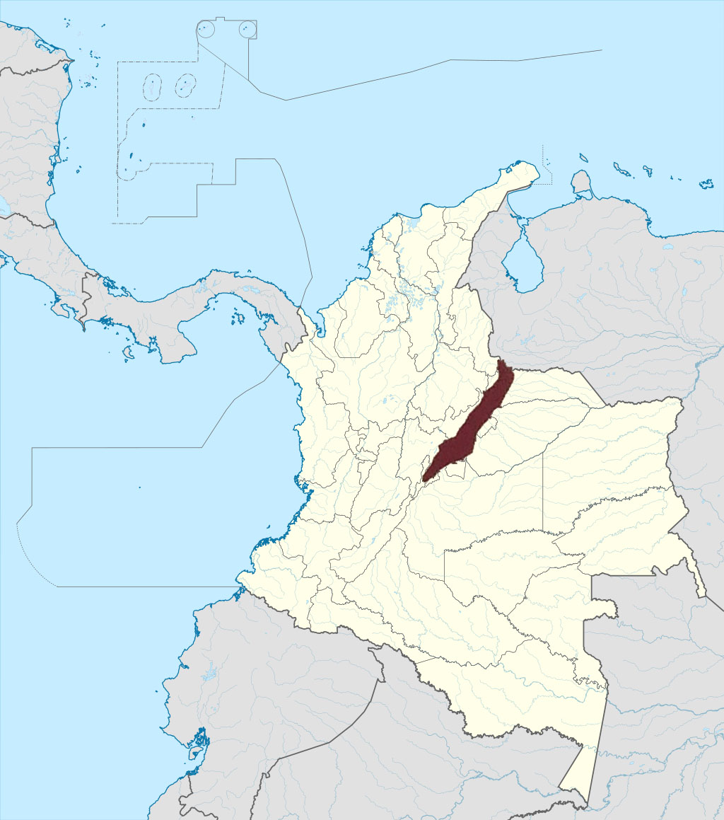 Historical territory of the muisca people